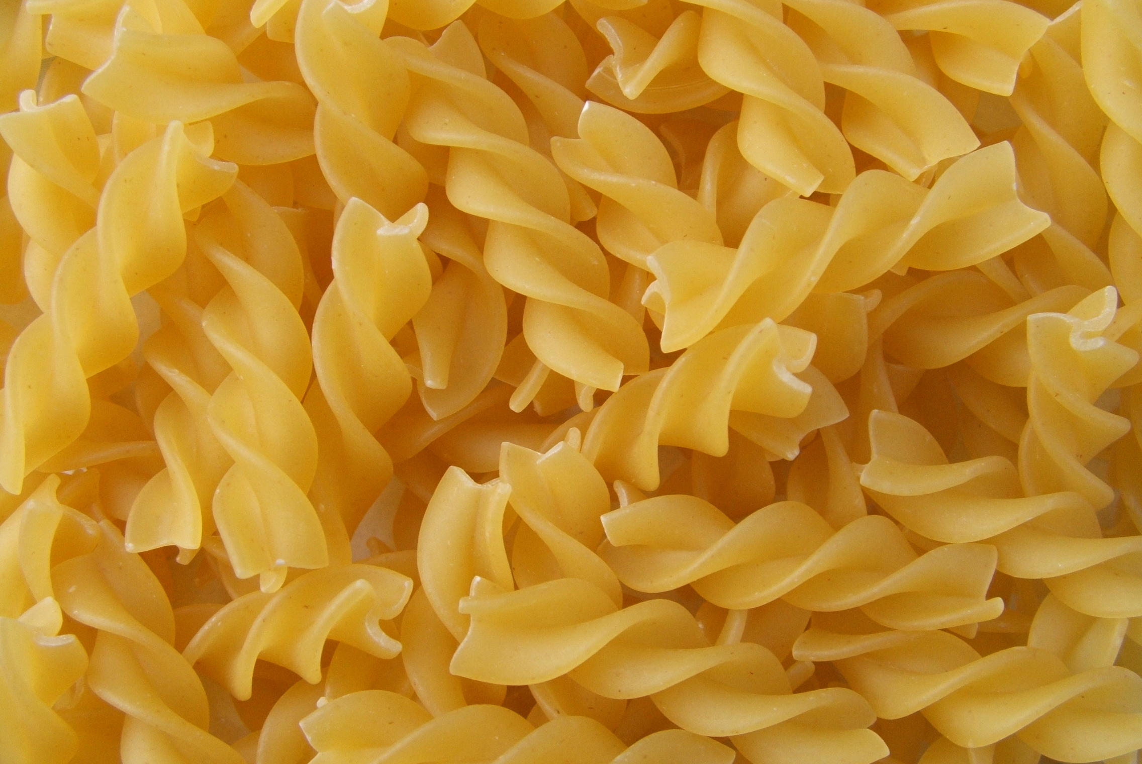 Fusilli pasta